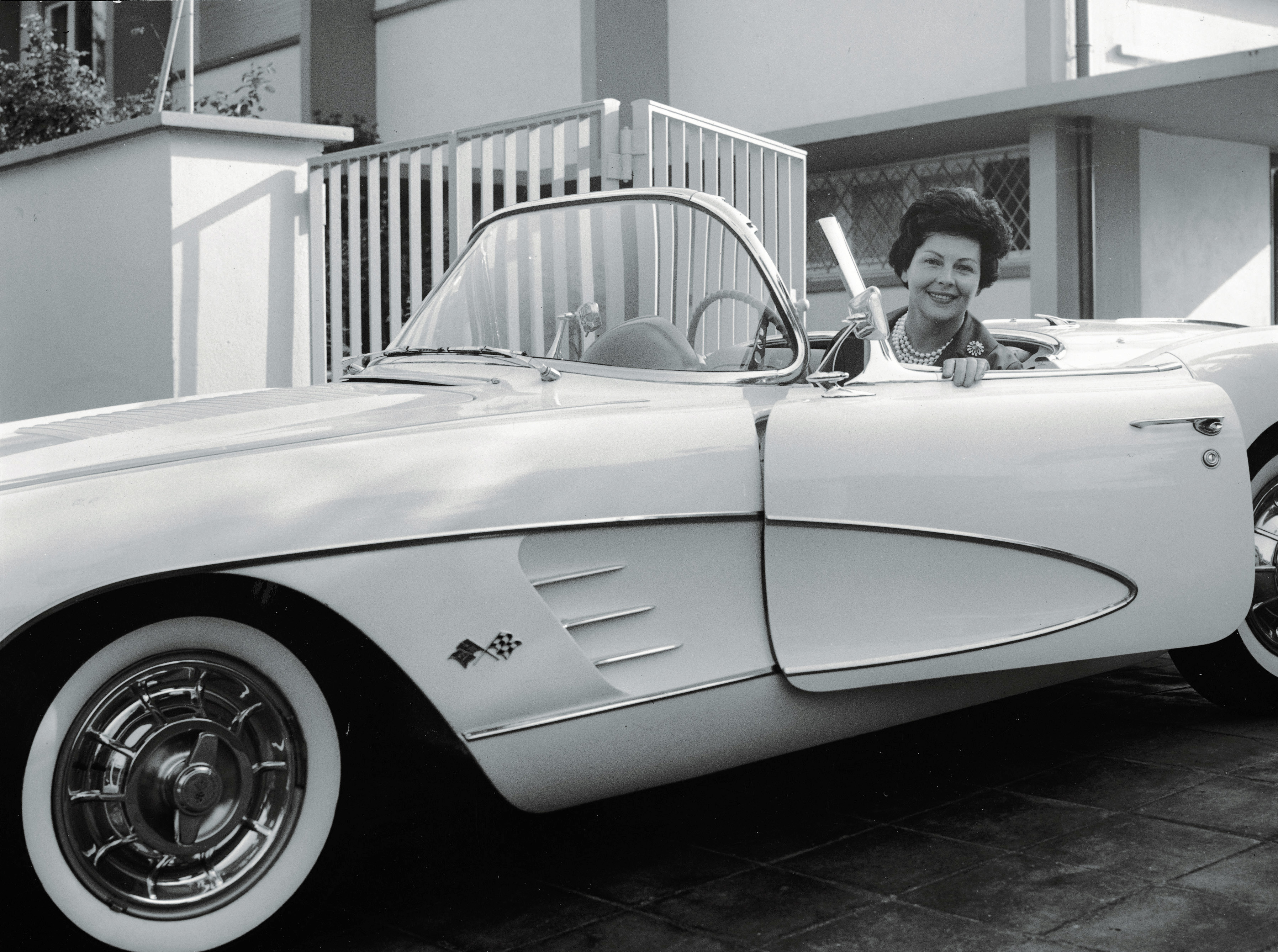 Aenne Burda in Chevrolet Corvette.